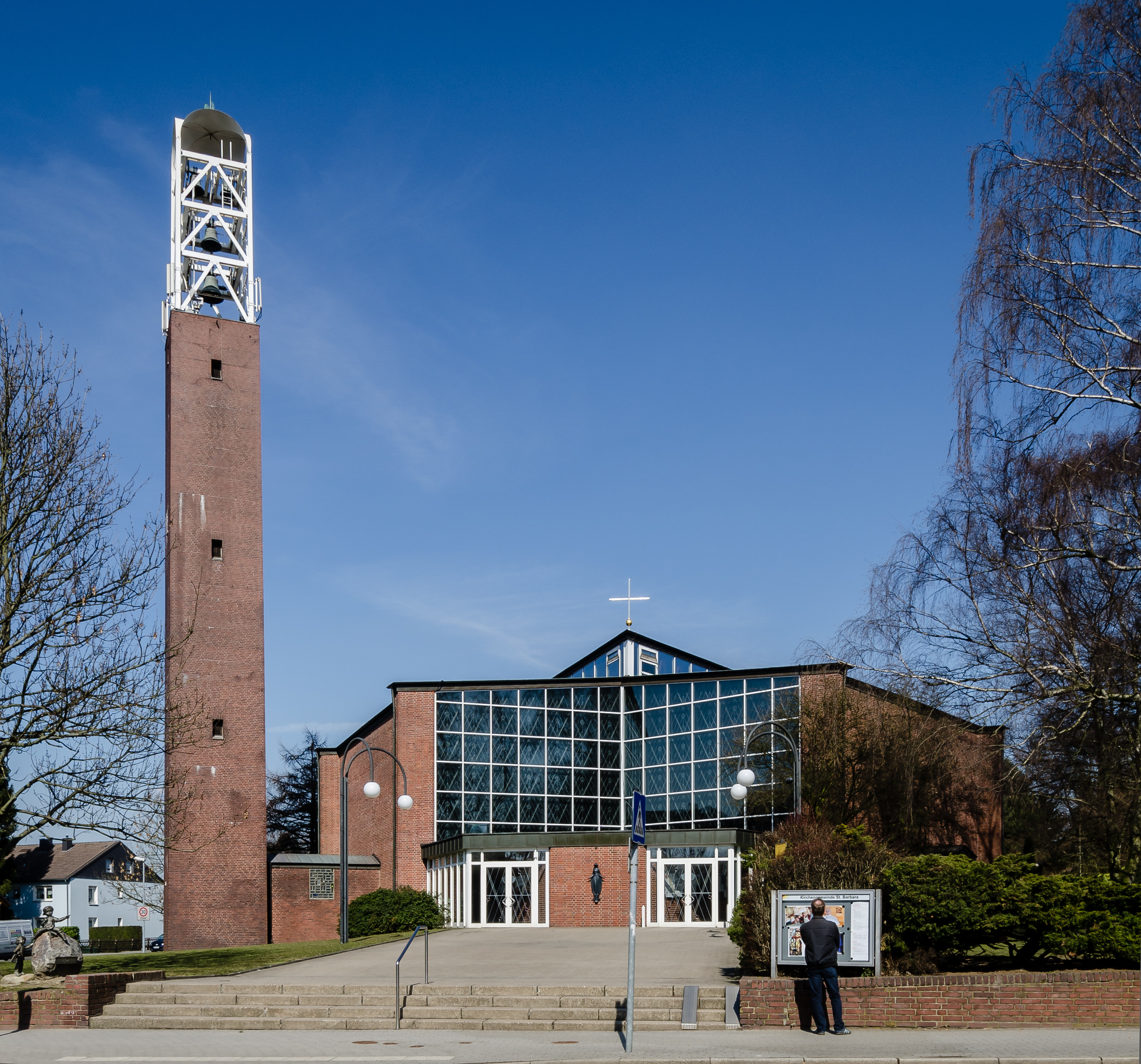 St. Barbara Church in Mülheim an der Ruhr